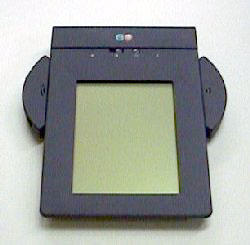 Picture of the EO Communicator (source: the University of Texas)